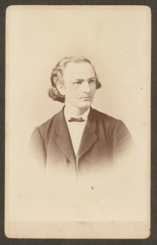 Portret of de German classical violinist, composer, conductor Carl Louis Bargheer. Fotograph by Hoyer in Göttingen, Germany, in 1855.